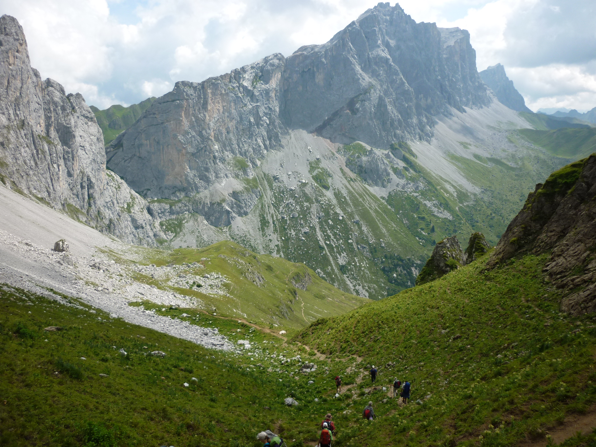 Prättigauer Höhenweg mit Schweizertor, Prättigau GR, Schweiz